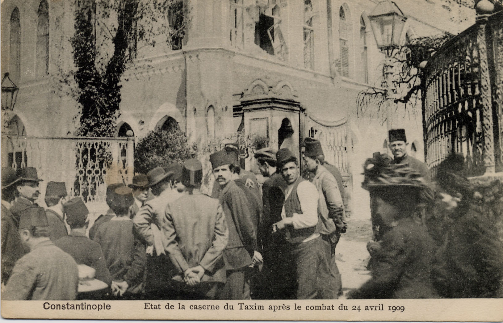 31 March Incident, Attack on Artillery Barracks, Taksim, İstanbul SALT Research, Tahsin İspiroğlu Collection "The Performance of the Modernity: ATATÜRK KÜLTÜR MERKEZİ, 1946-1977" (21.09.2012-06.01.2013, SALT Galata) 31 Mart Olayı, Topçu Kışlası'na saldırı, Taksim, İstanbul SALT Araştırma, Tahsin İspiroğlu Koleksiyonu "Modernin İcrası: ATATÜRK KÜLTÜR MERKEZİ, 1946-1977" sergisinden (21.09.2012-06.01.2013, SALT Galata)